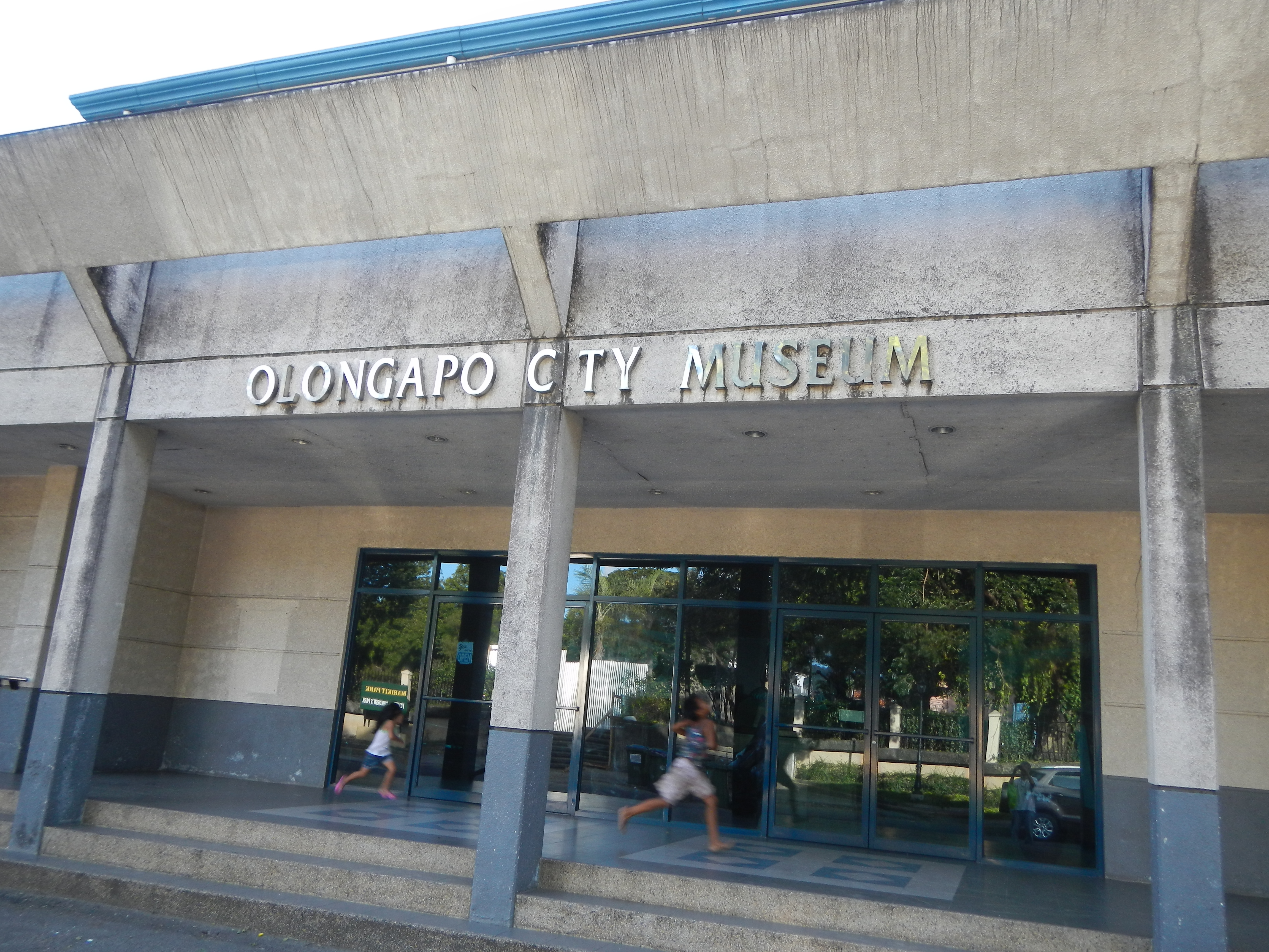 Zambales: Marikit Park Olongapo, Marikit Park, Youth and Children's Park, (near James Leonard Gordon monument and memorial, Leo's Pak, Gordon College (Philippines), the museum, the convention center and the library; Marikit Park Main Gate, The Anchor; "Ang Manggagawa ay Bisig ng Bayan" or "The Worker if the Arm of the Nation" concrete mural honoring the Filipino workers; R-A5 Vigilante, 147858, WST 858, North American A-5 Vigilante North American RA-5C Vigilante is a body of a U. S. Navy plane, originally displayed at Subic Naval Base; along Bajac-bajac Bridge K0126+117.50 over Kalaklan River Latitude. 14.8236°, Longitude. 120.2686° and Creek and Cherry Midtown Hotel, (located in Olongapo City Proper in Rizal Avenue, Barangay East Bajac-bajac, Olongapo City, is beside and in front of West Bajac-bajac, Olongapo City, beside and from Barangay East Tapinac is beside and in front of West Tapinac Olongapo City, Zambales, 1st District of Zambales along the Olongapo-Bataan Road, from Jose Abad Santos Avenue (Olongapo-Gapan Road) connected to MacArthur Higway or Manila North Road).